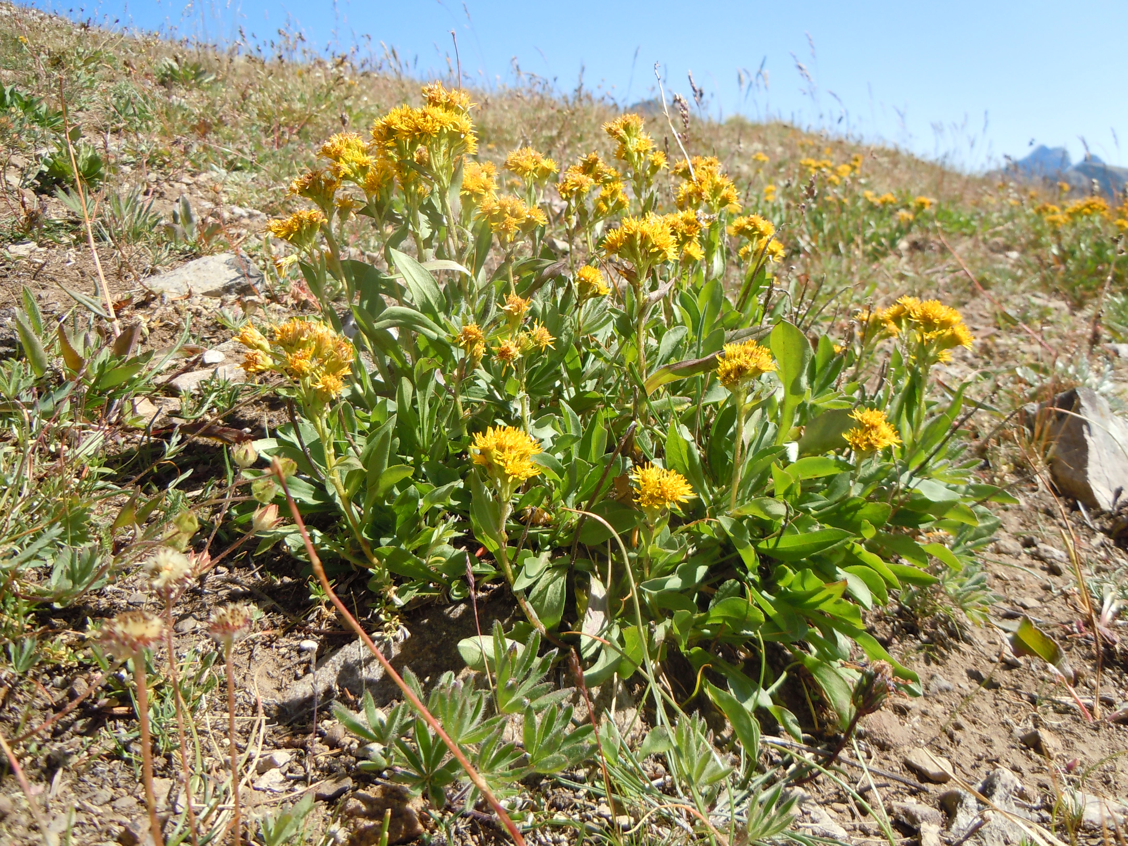 A perennial bunched herb that is found in open settings of higher elevations and that apparently does not inhabit open sites at lower elevations, such as the sagebrush steppe surrounding the Teton Range.